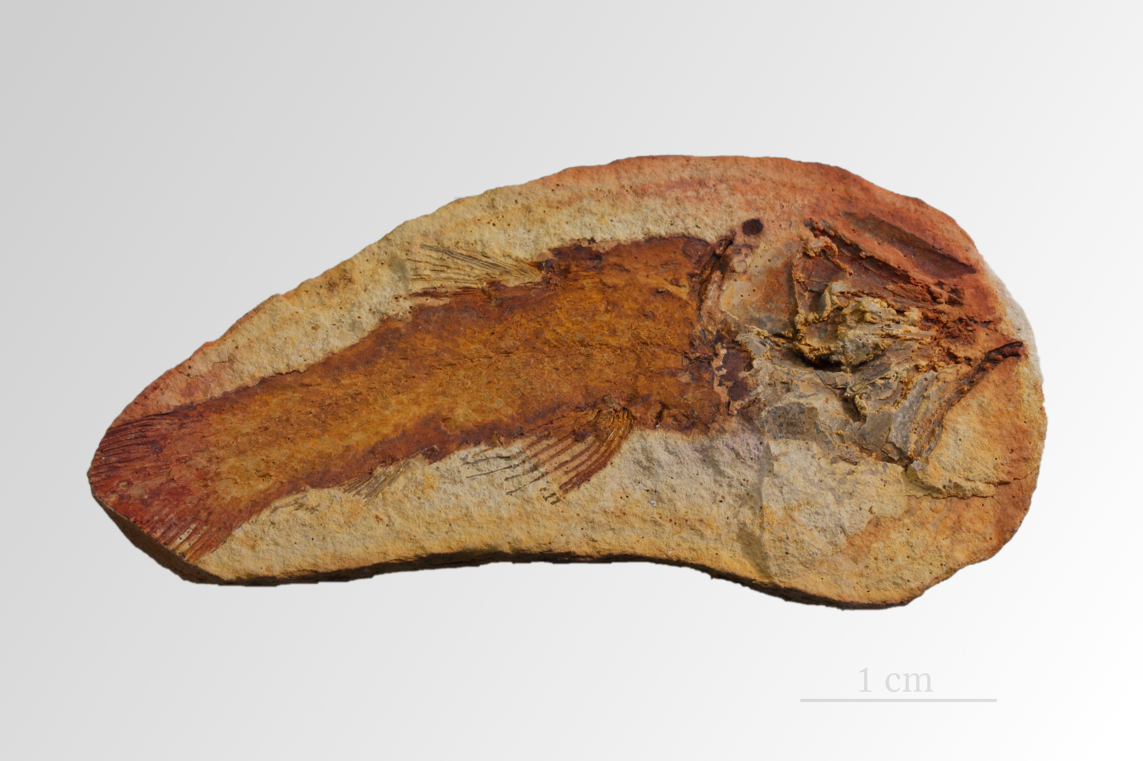 Coelacanth - Triassic - Ambilobe, Madagascar